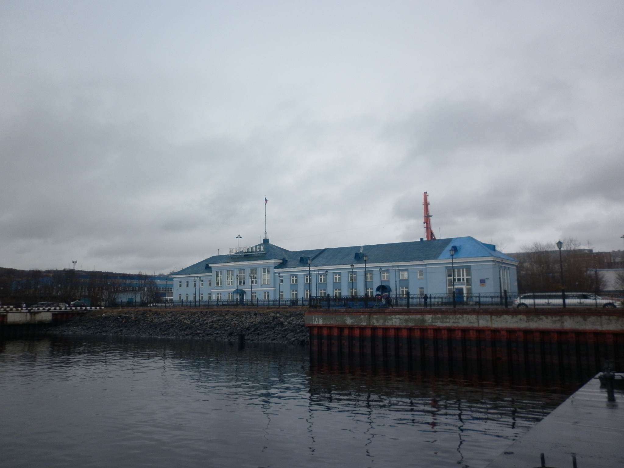 Murmansk Se Terminal.